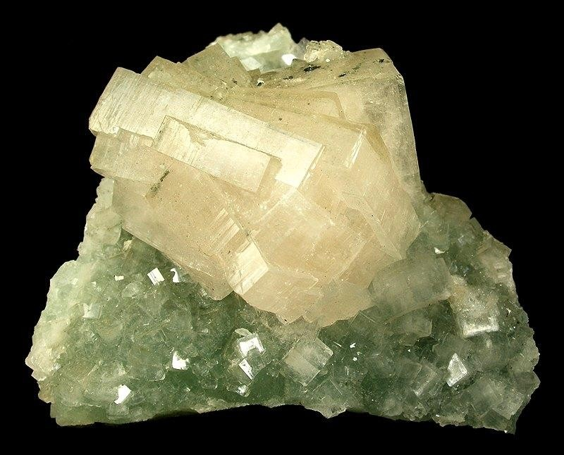 Apophyllite, Prehnite Locality: Fairfax quarry (Centreville Quarry; Sisslers Quarry), Centreville, Culpeper Basin, Fairfax County, Virginia, USA (Locality at ) Apophyllite on Prehnite from the Fairfax Quarry in Centreville, Virginia. Recent acquisition from Rob Lavinsky (7.0 x 5.5 x 5.5 cm).